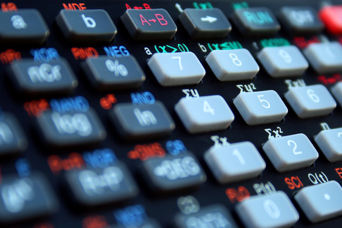 Philips scientific calculator, Keys